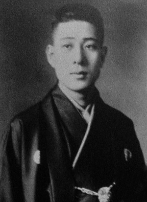 Kabuki actor Fukusuke Nakamura V Narikomaya (1900–33)